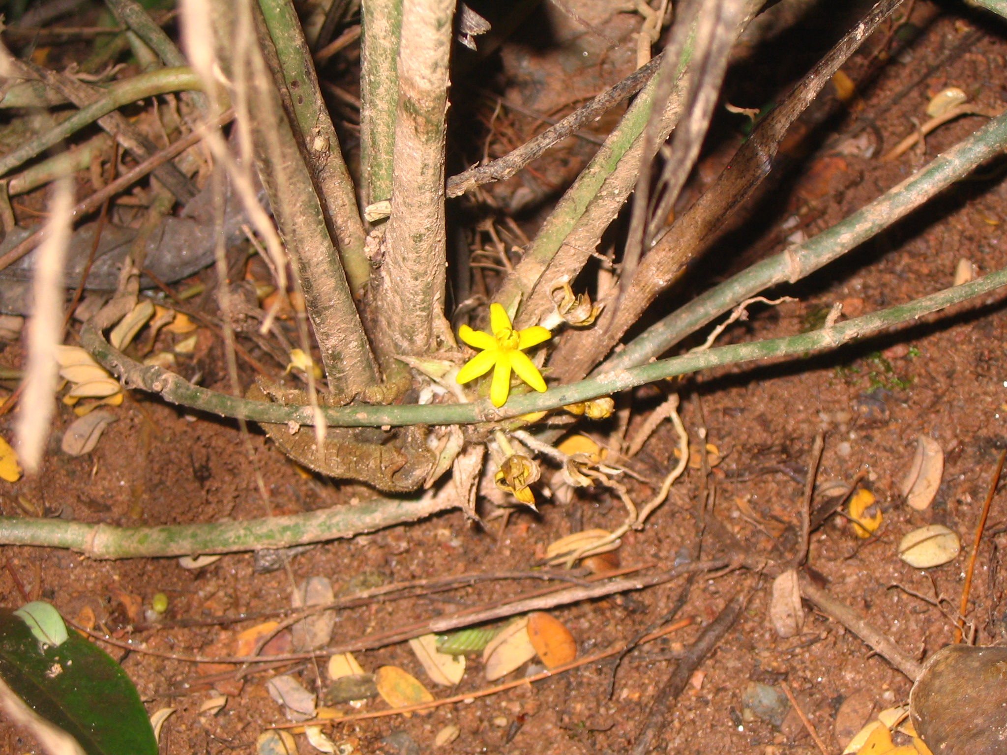 Molineria latifolia - Bukit nanas forest reserve - Kuala Lumpur